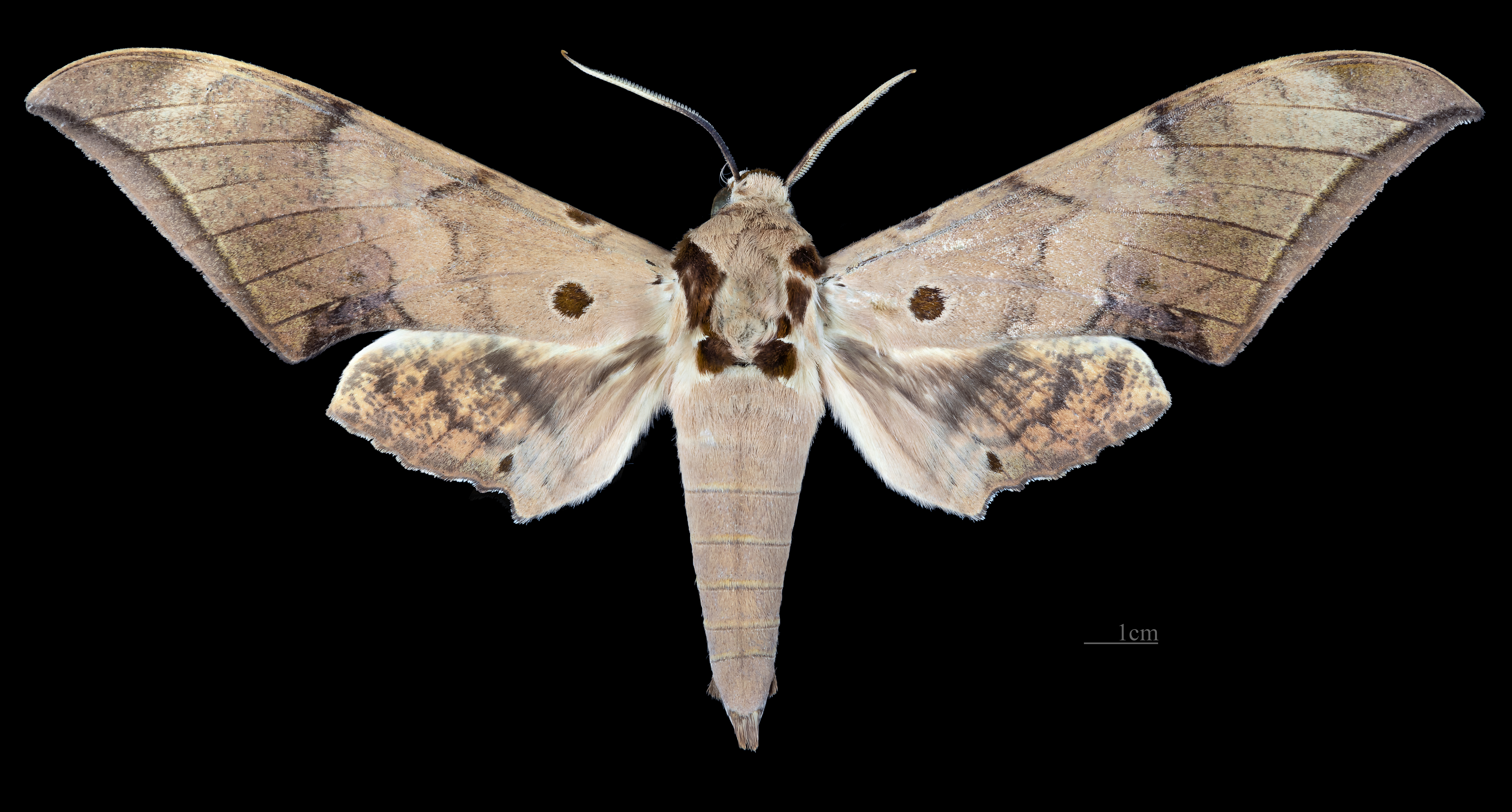 Ambulyx matti - Dorsal side Collection of the Mathematician Laurent Schwartz